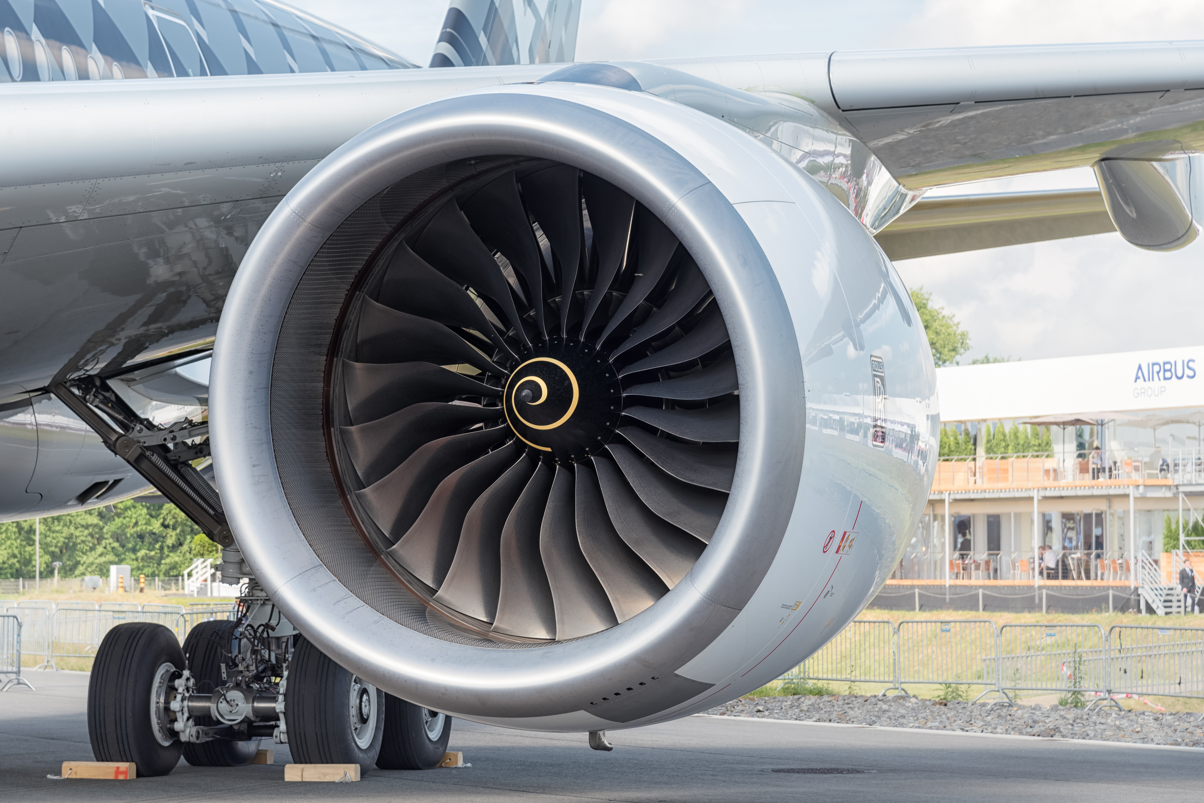 Rolls-Royce Trent XWB on the Airbus A350-941 (reg. F-WWCF, MSN 002) in Airbus promotional CFRP livery at ILA Berlin Air Show 2016.